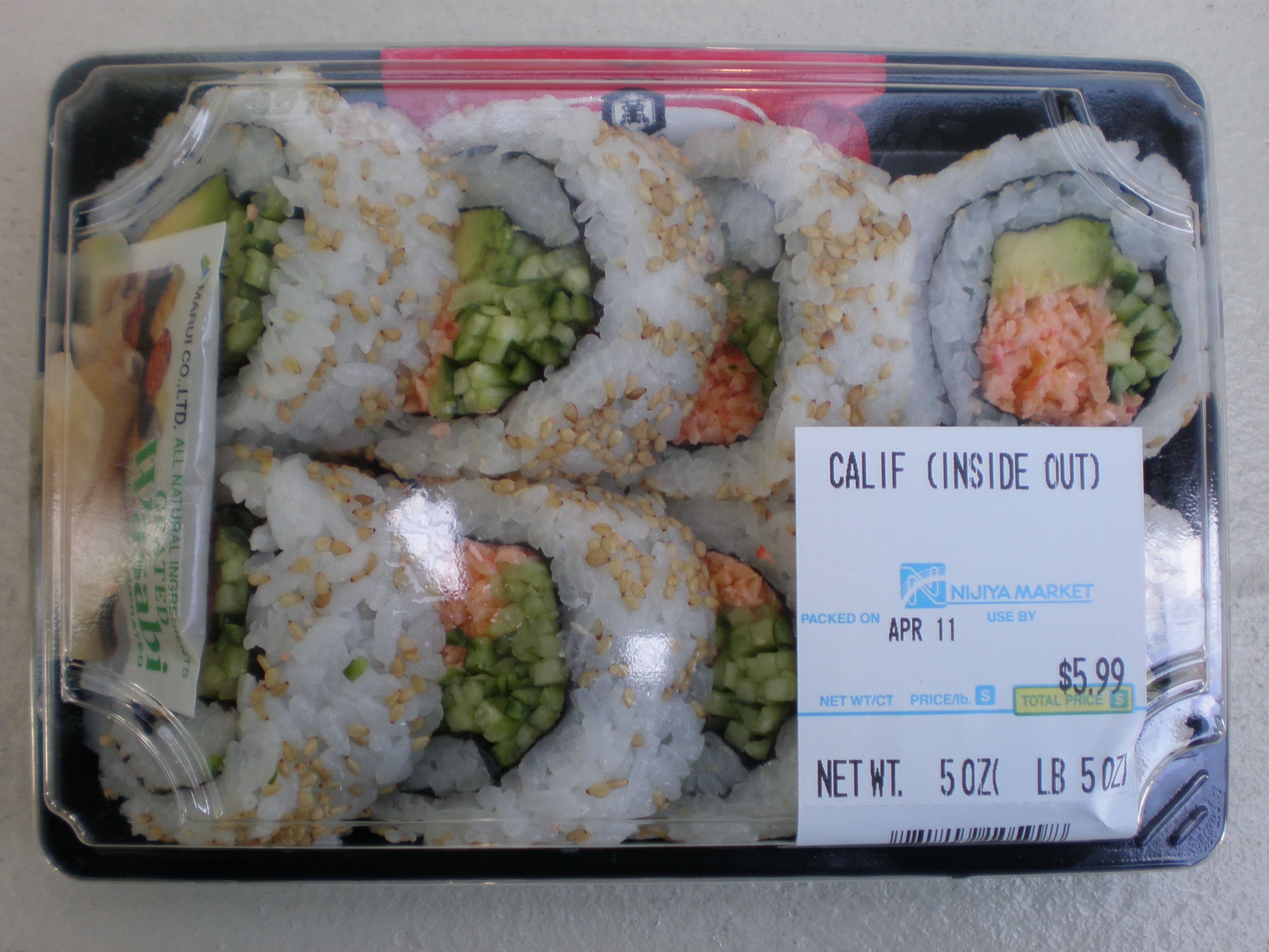 California rolls prepared inside out from the Nijiya Market at the Japan Center in San Francisco.